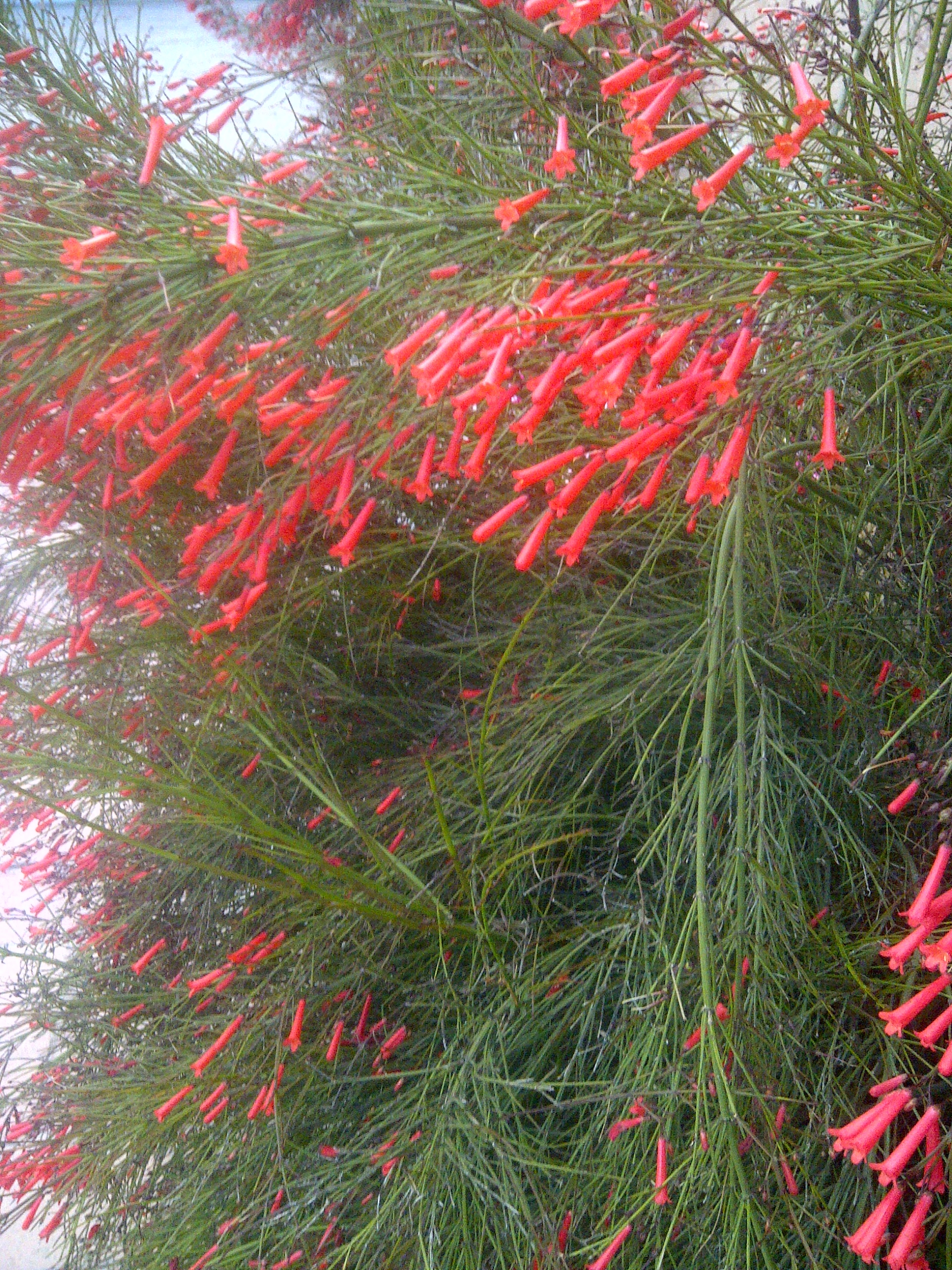 Russelia in Pakistan